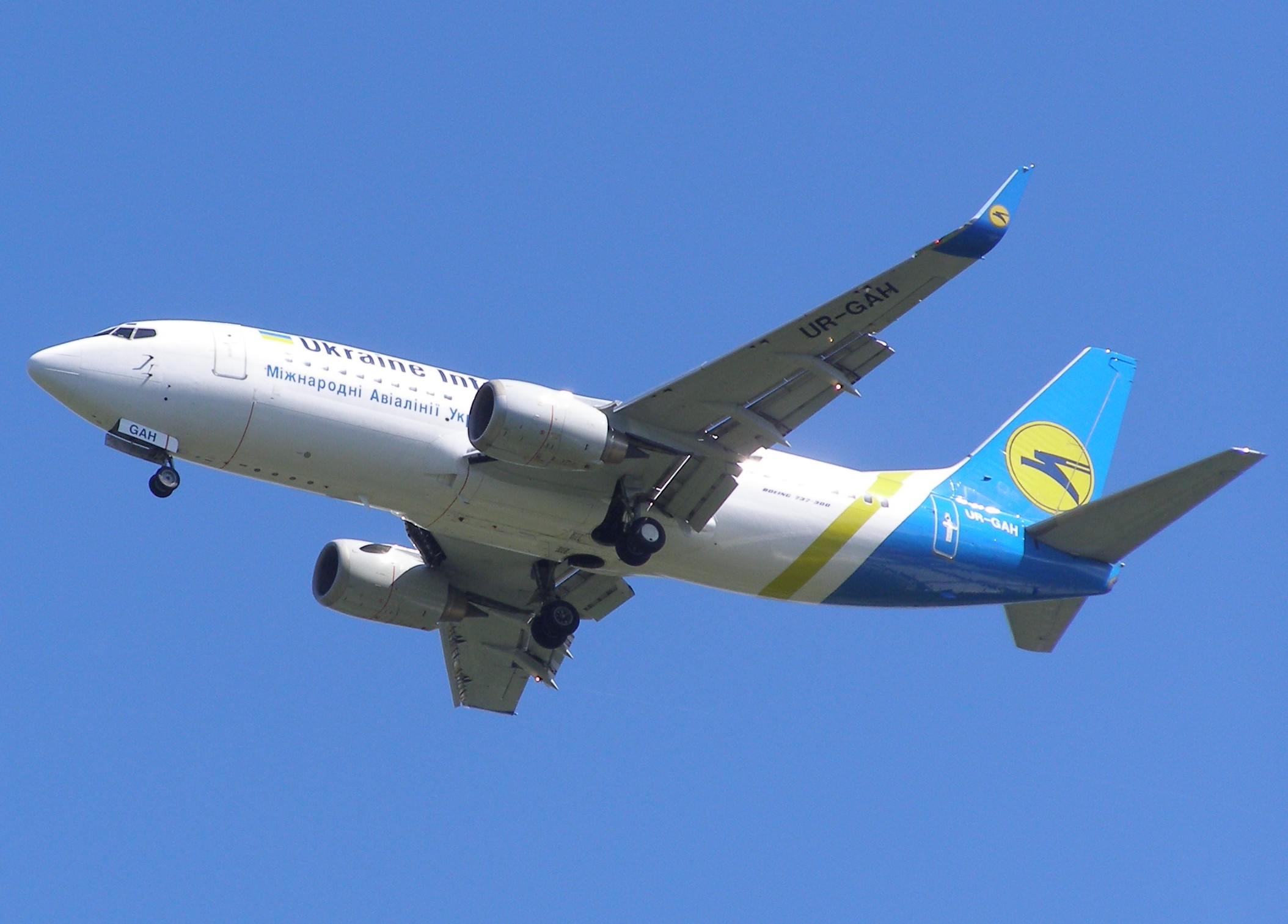 Boeing 737-32Q registred UR-GAH of Ukraine International on approach to London Gatwick Airport